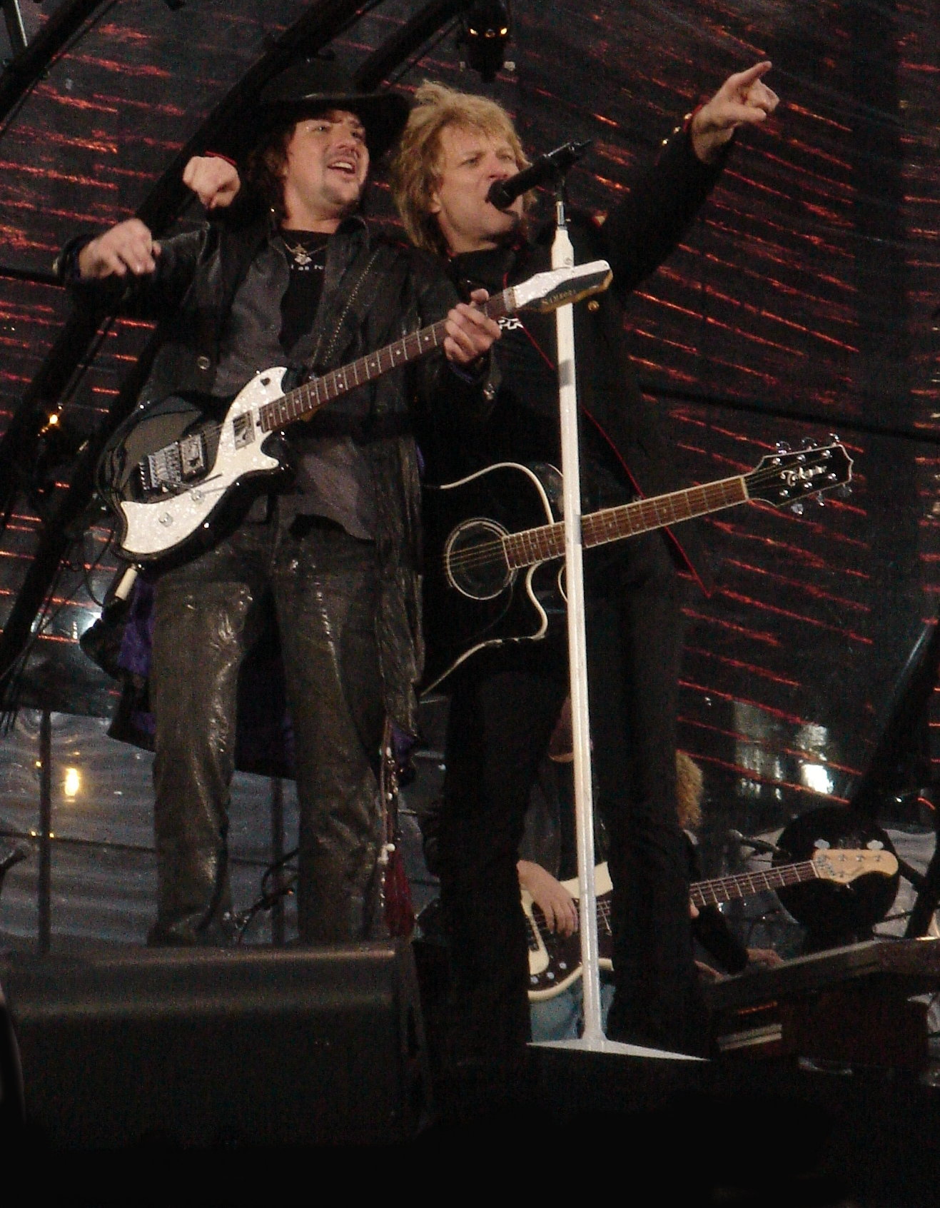 Jon Bon Jovi and Richie Sambora live in concert, Dublin May 2006.